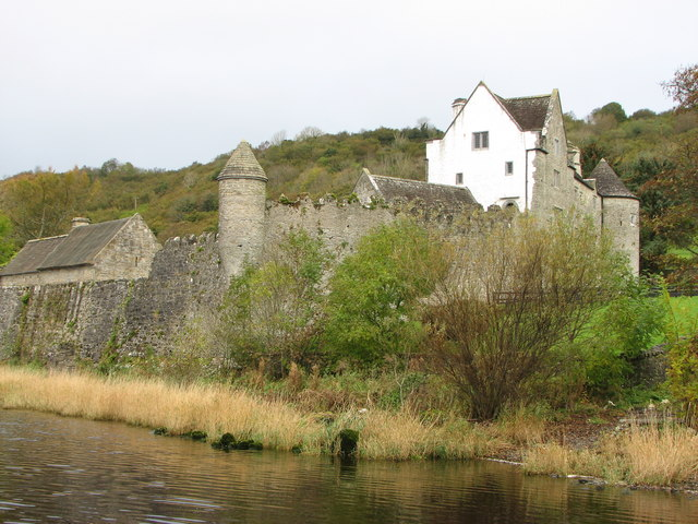 Parkes Castle Looking from the lough side of the castle.